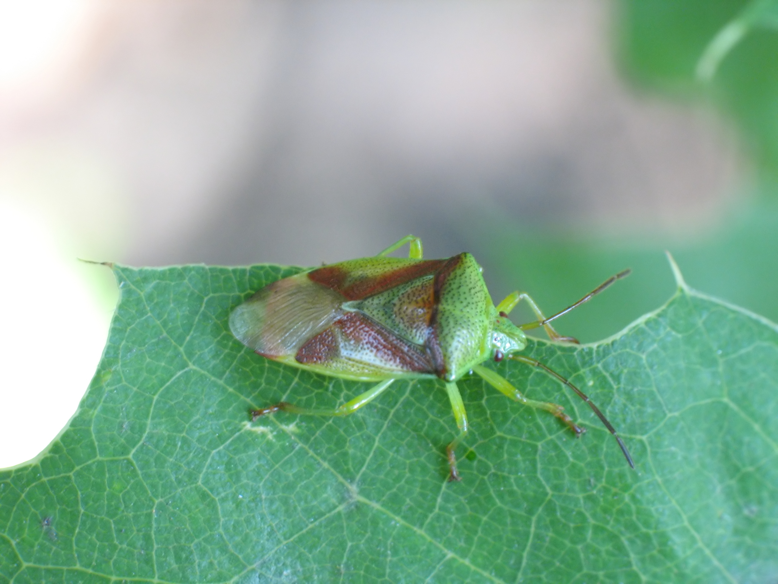 Elasmostethus interstinctus, location Zabrze, Poland